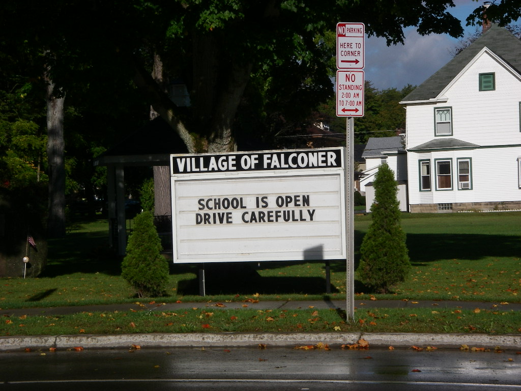 sign on common in Falconer, NY